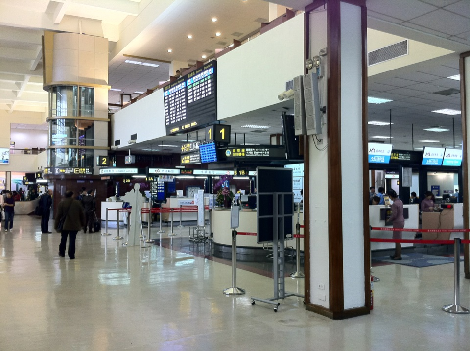 Check in counters of Taipei Songshan Airport.